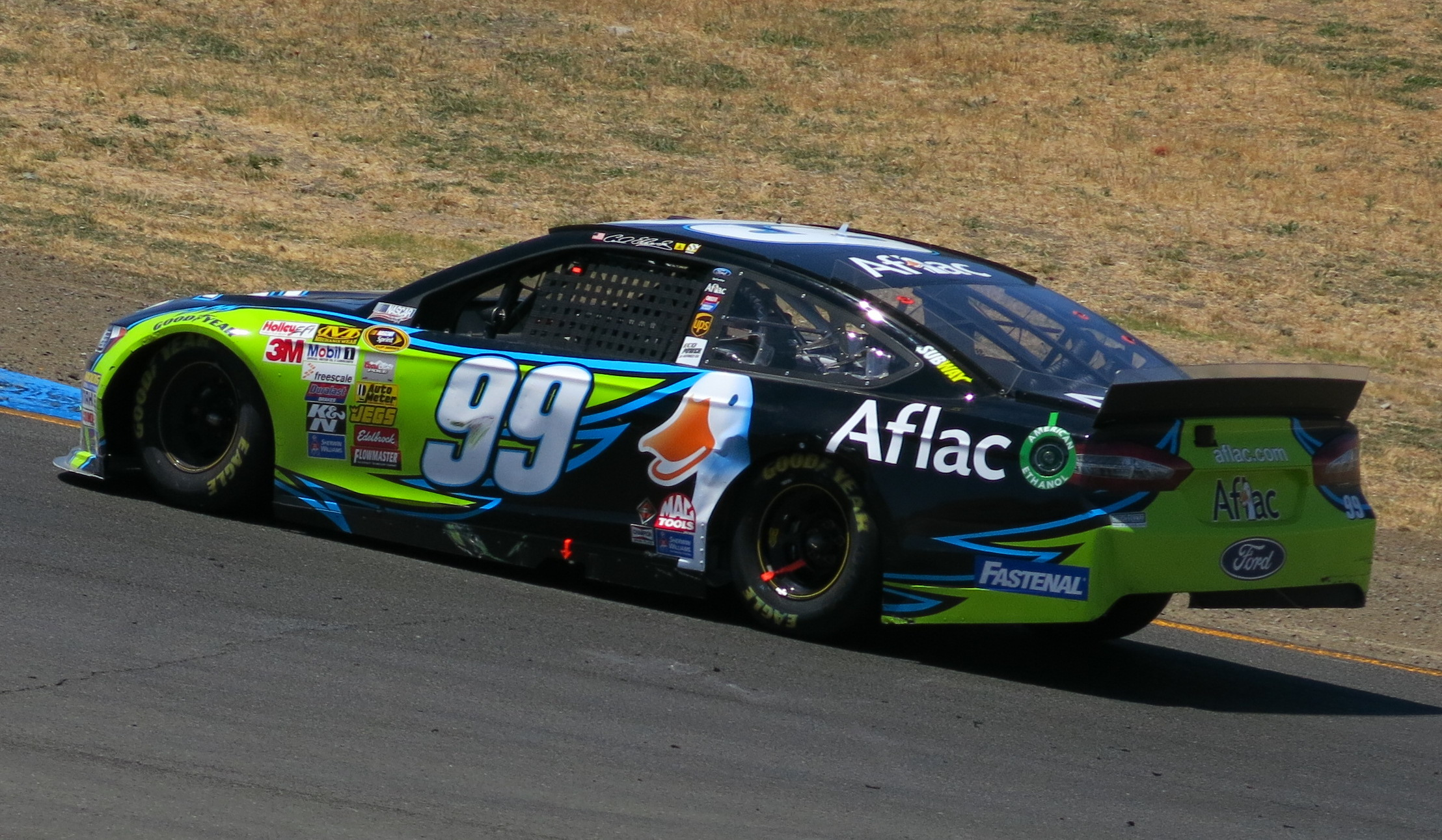 Carl Edwards - the eventual winner of the Toyota/Save Mart 350 at Sonoma Raceway in 2014.